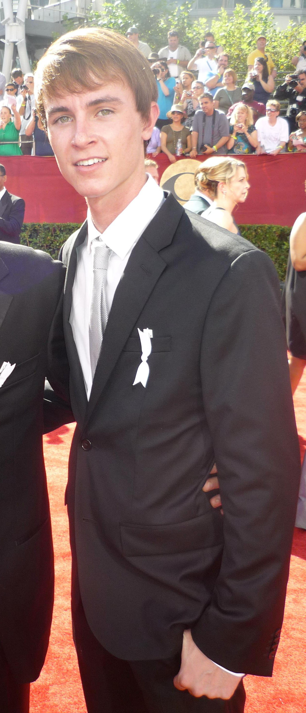 Actor Ryan Kelley at the 2009 Primetime Emmy Awards.